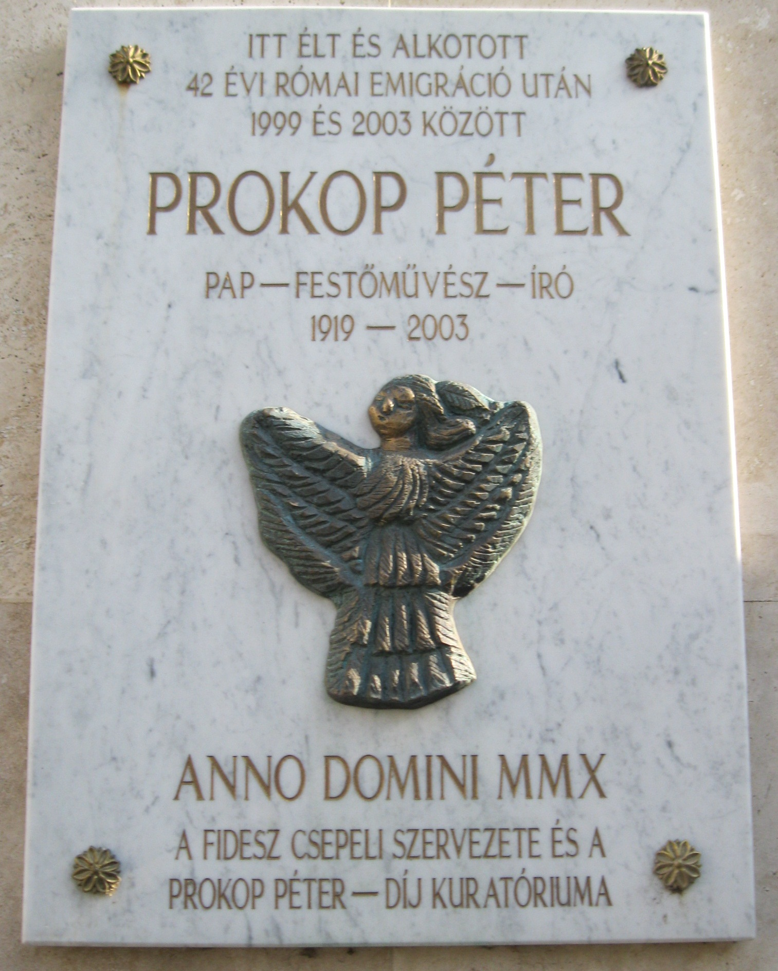 Commemorative plaque of Péter Prokop, Budapest District XXI, Béke Square No 13